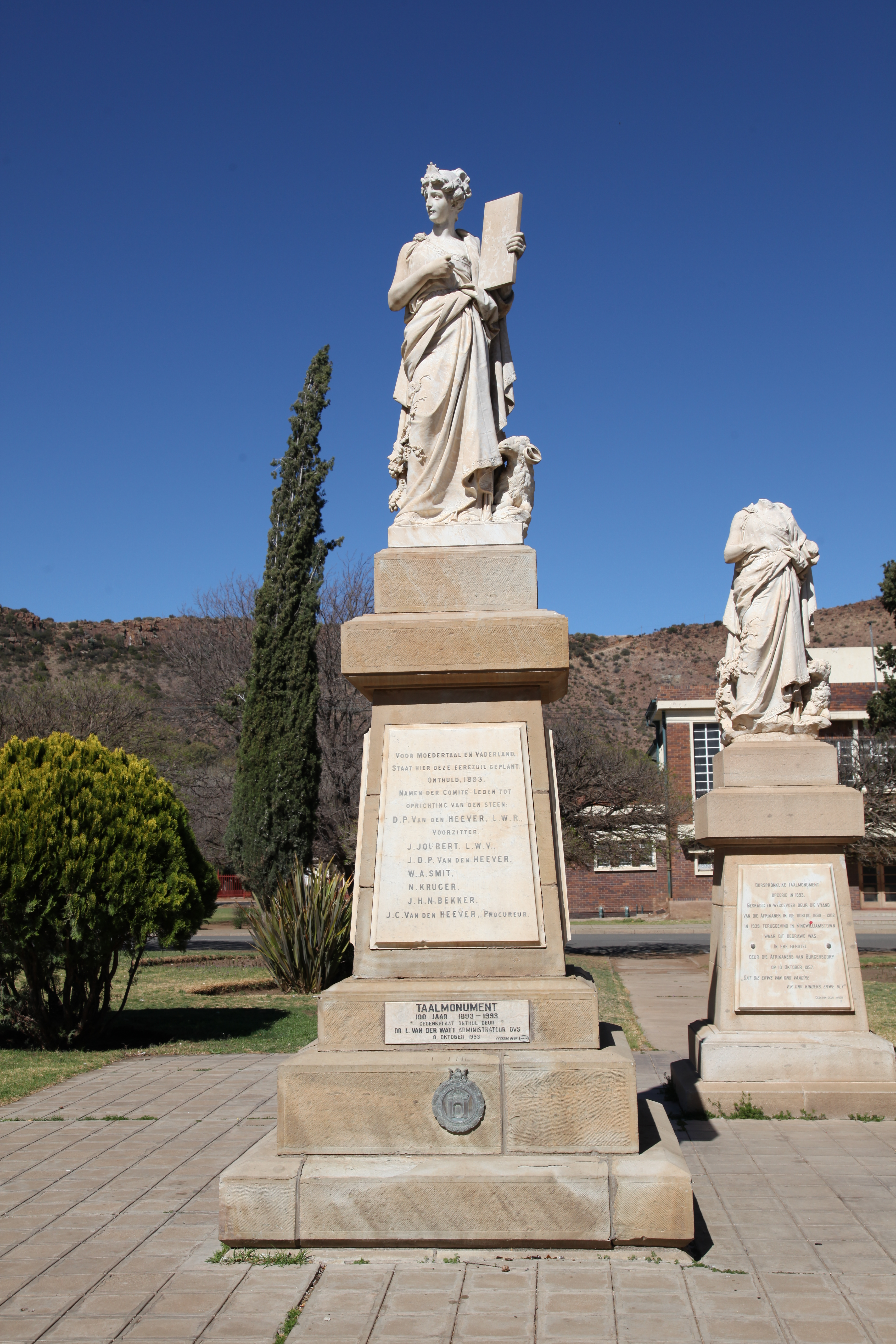 The Dutch Language Monument in Burgersdorp, Eastern Cape, South Africa ↑ Dutch as official language, Ancestry24